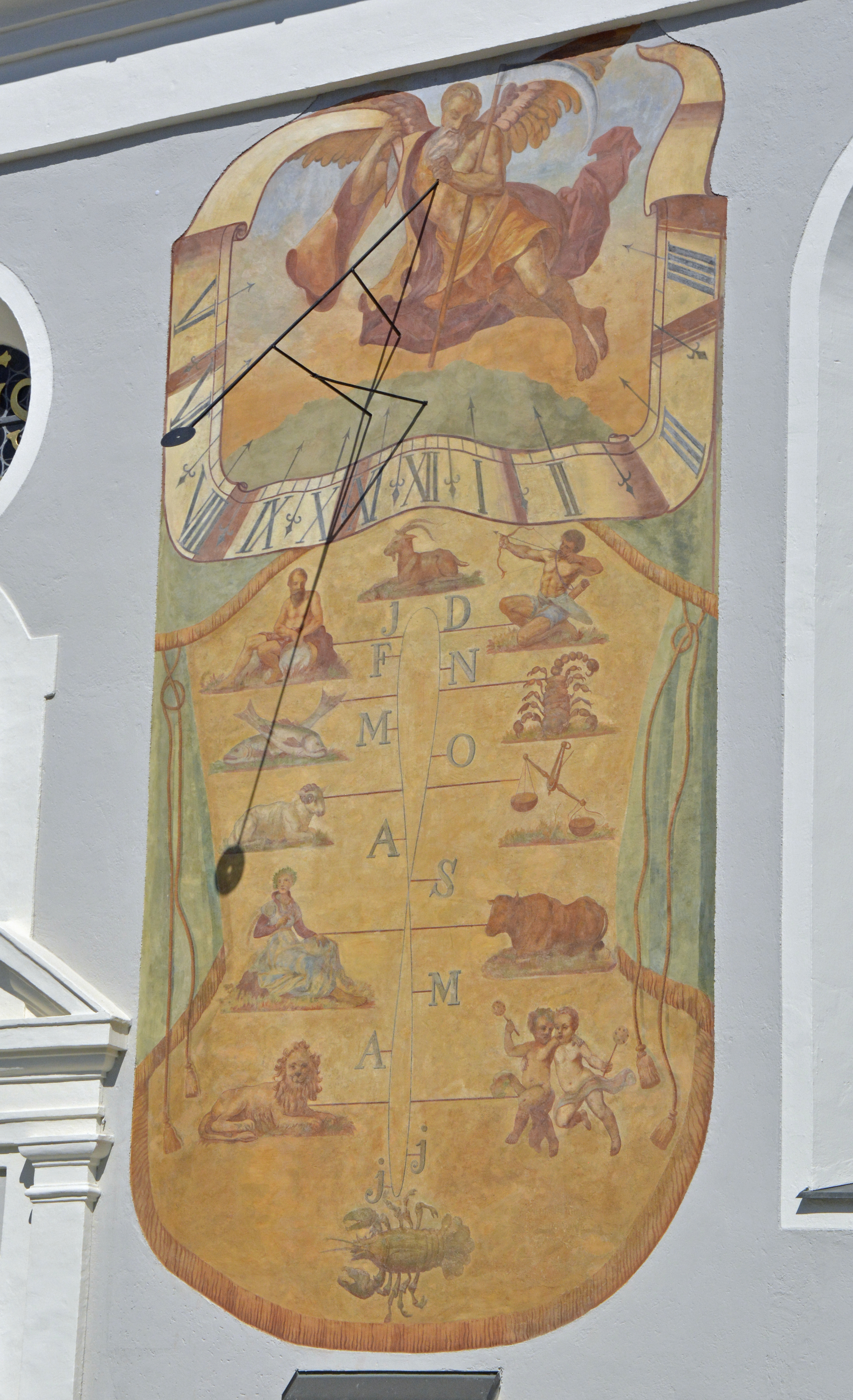 Sundial of the parish church St. Jakob, Dachau